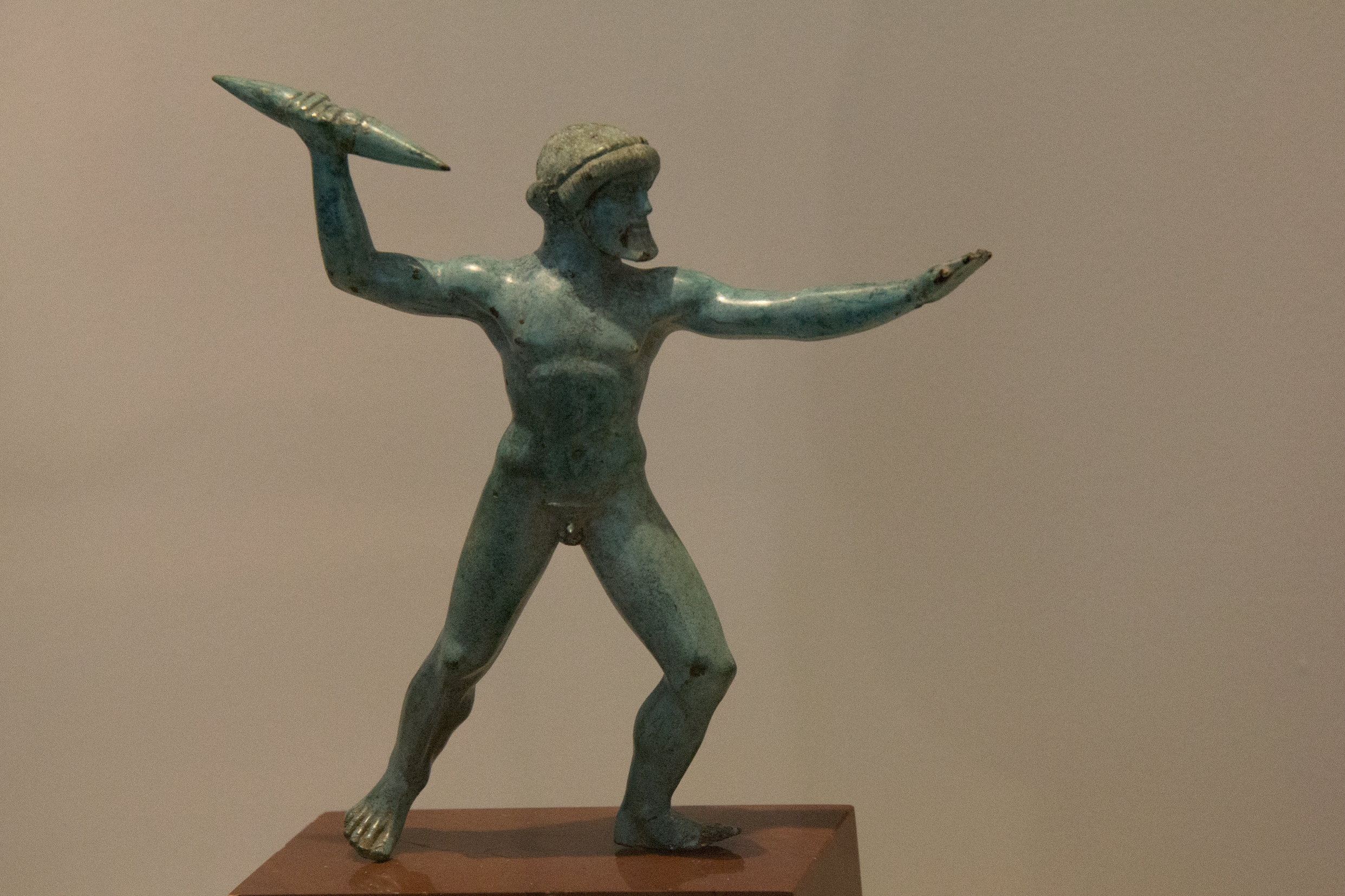 Zeus Casting Thunderbolts. Sanctuary of Zeus at Dodona, bronze, around 470 BC. Antikensammlung Berlin, Altes Museum, Misc. 10561.